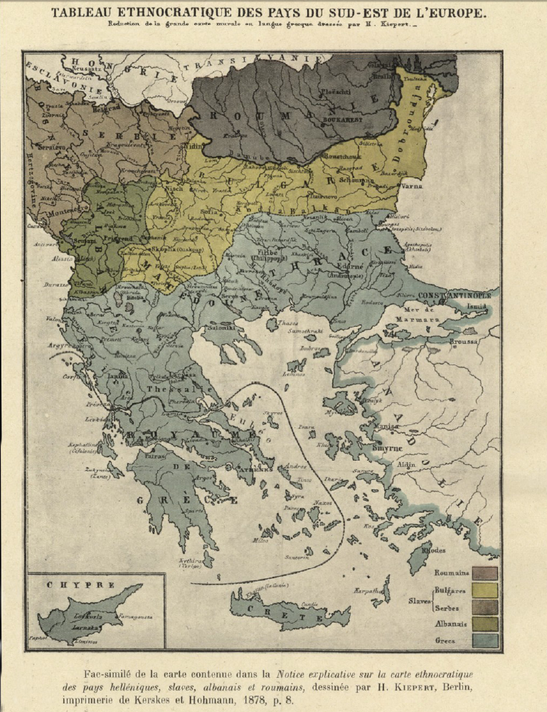 Ethnographic map of the Balkans, 1878, by Heinrich Kiepert